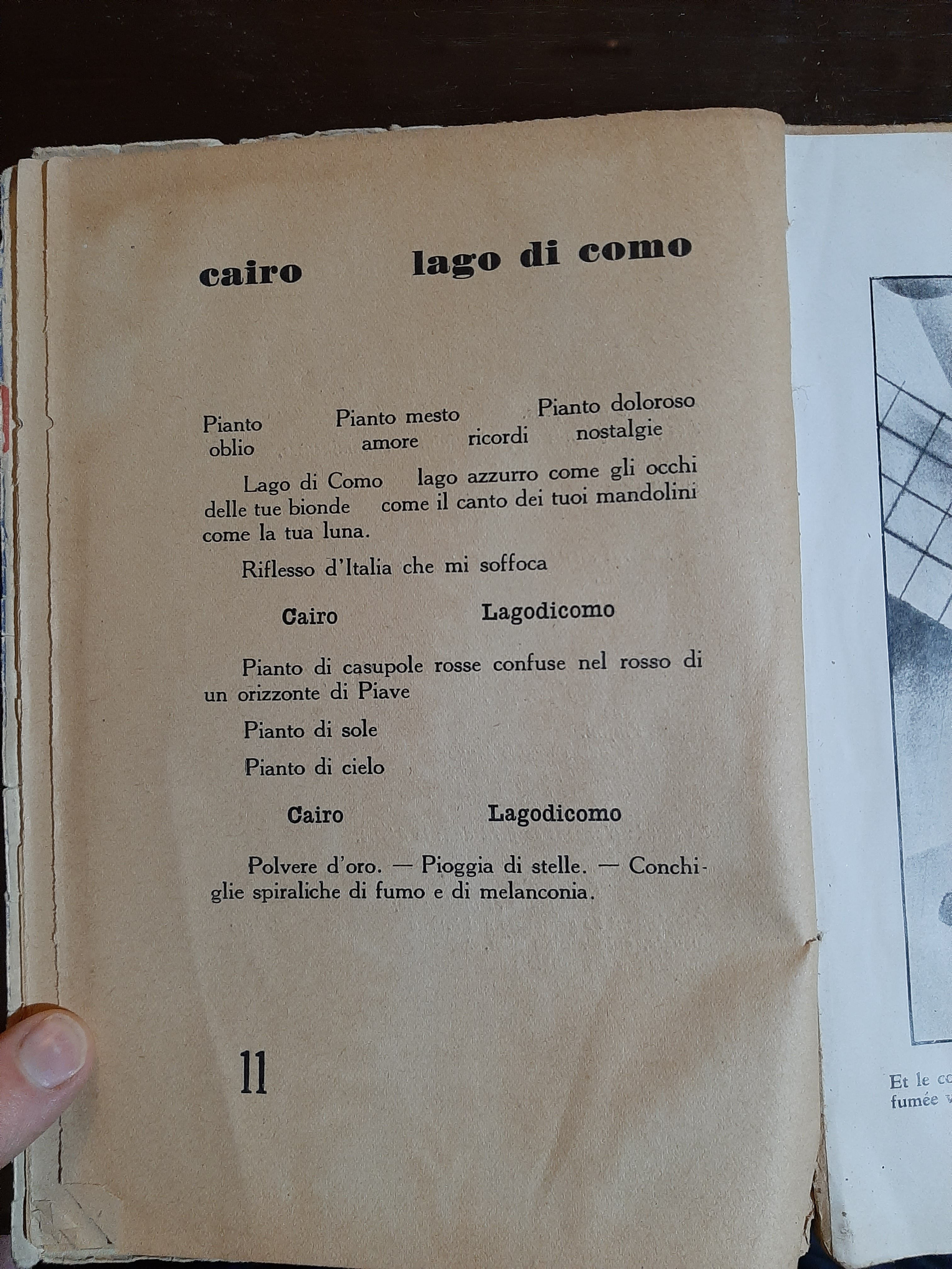 A page of a Futurist collection of poetry by Nelson Morpurgo. This page shows a poem entitled "cairo lago di como".